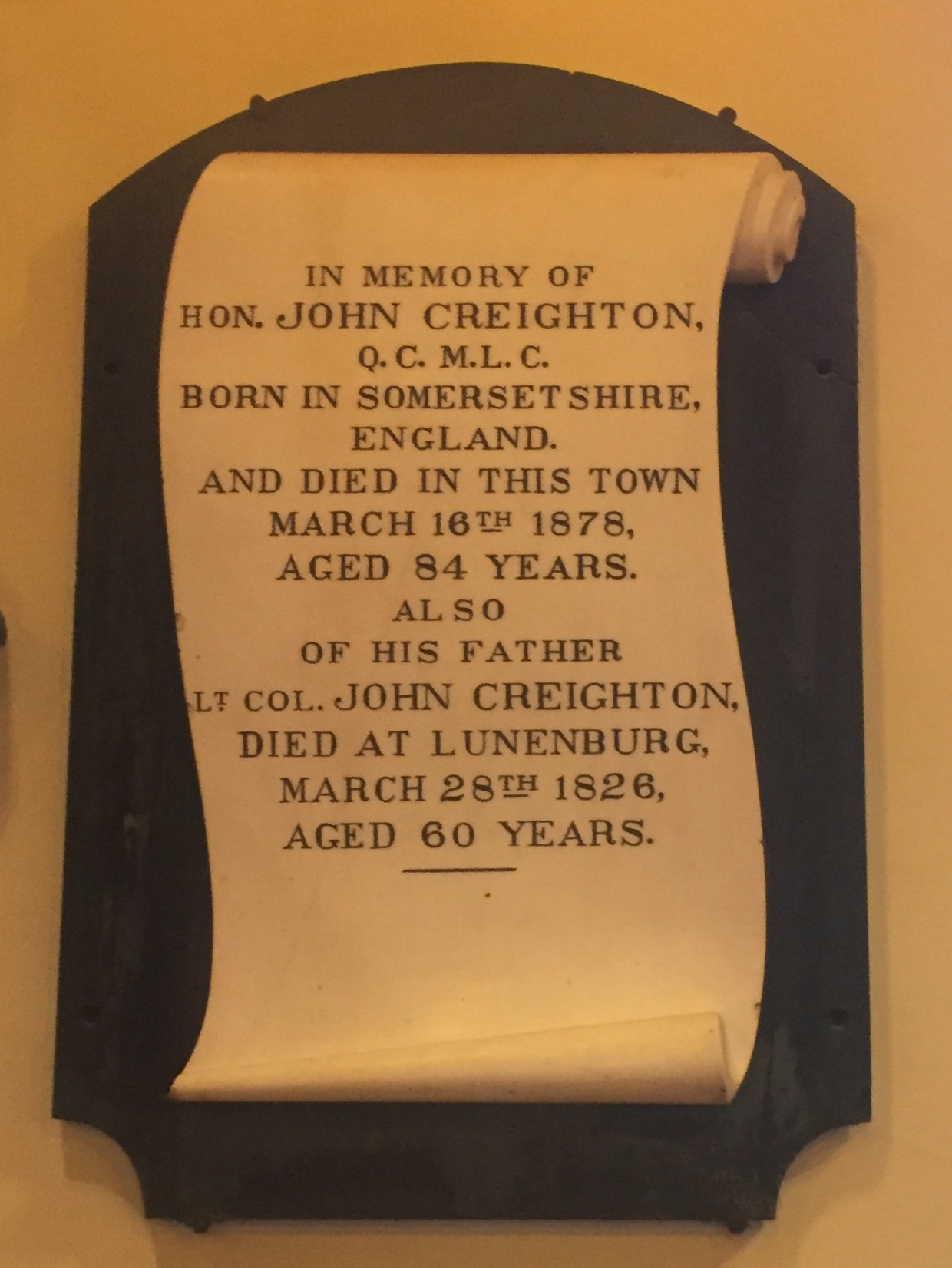 John Creighton Plaque, d. 1828, St. John's Anglican Church, Chester, Nova Scotia